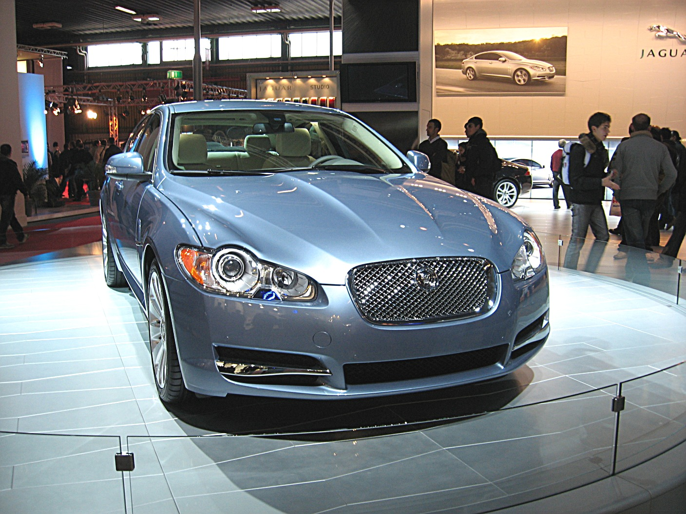 Subject:Jaguar XF Author:Luc106 Date:December 13th, 2007 Event:Motor Show Bologna 2007 Place/Country: Bologna, Italy I release all rights in the public domain.